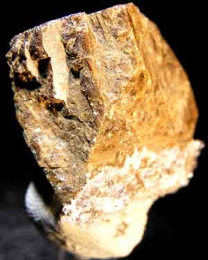 Titanite Locality: Bø, Tromøysund, Arendal, Aust-Agder, Norway (TYPE LOCALITY) Size: thumbnail, 2.3 x 2 x 1 cm Keilhauite An extremely rare crystal of Keilhauite , an oddball Calcium Titanium Aluminum Iron Yttrium Silicate